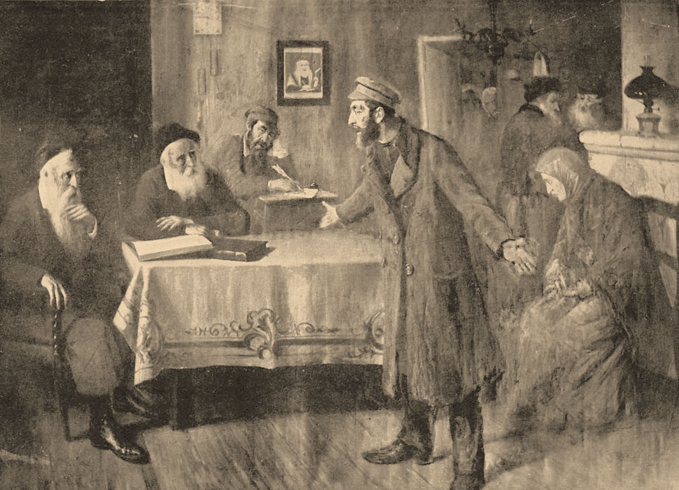 Illustration from Brockhaus and Efron Jewish Encyclopedia (1906—1913)